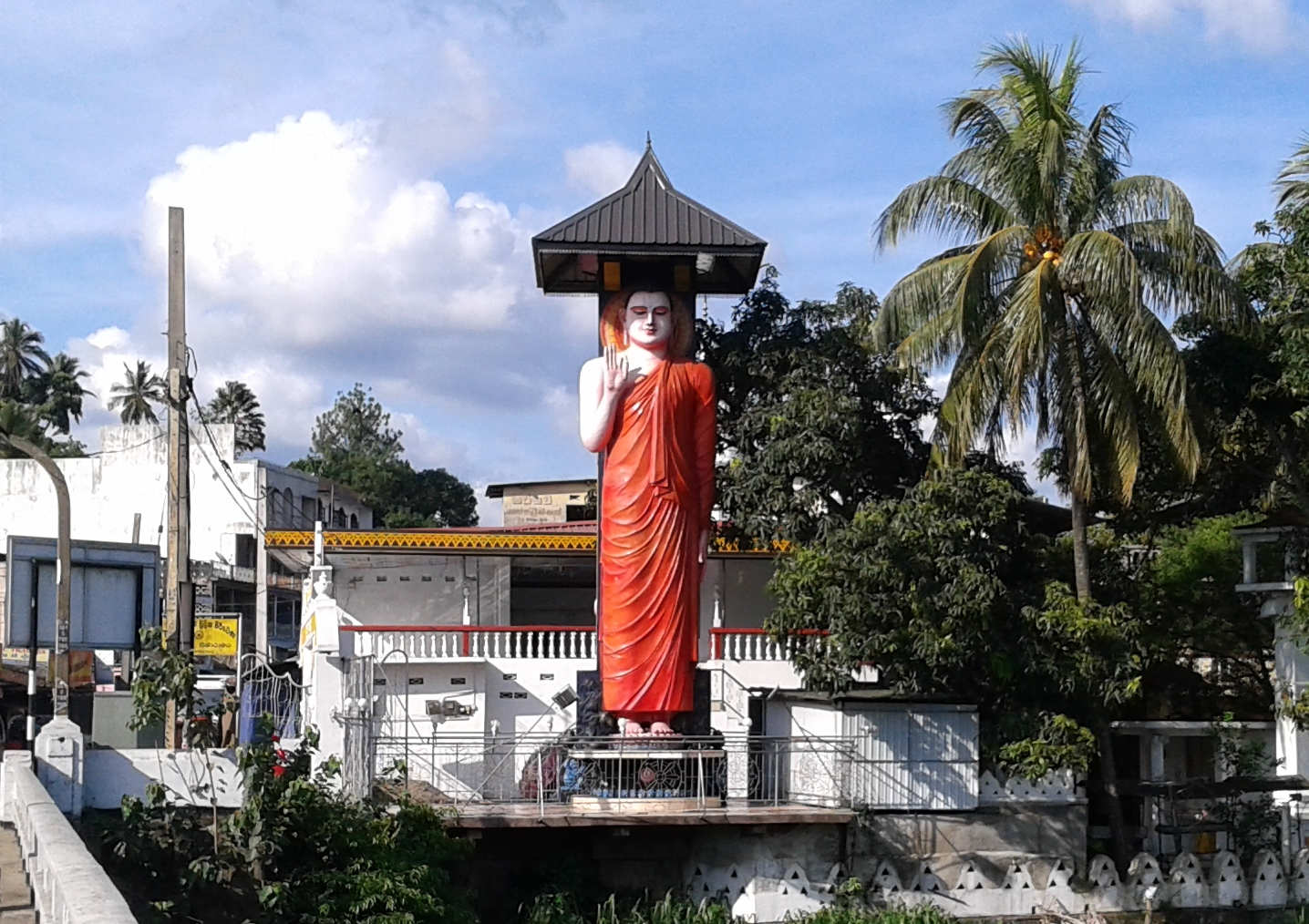 Tri Sinhala Seemaramaya Katugastota. සිංහල: ත්‍රි සිංහල සිමාරාමය කටුගස්තොට.